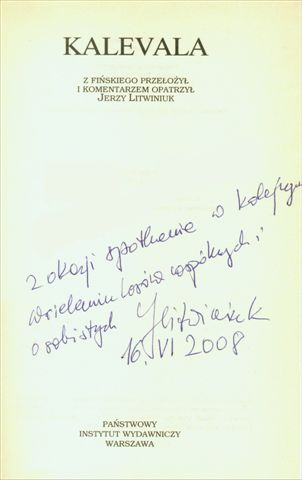 Jerzy Litwiniuk (b. 1923)'s autograph ("Kalevala" - Polish edition, 1998)